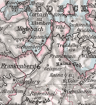 Detail from a map of Hesse.